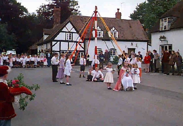 Crowning the Queen of the May. Every year on Oak Apple Day (29th May) or the nearest school day the children crown the May Queen they have chosen and perform maypole dances.